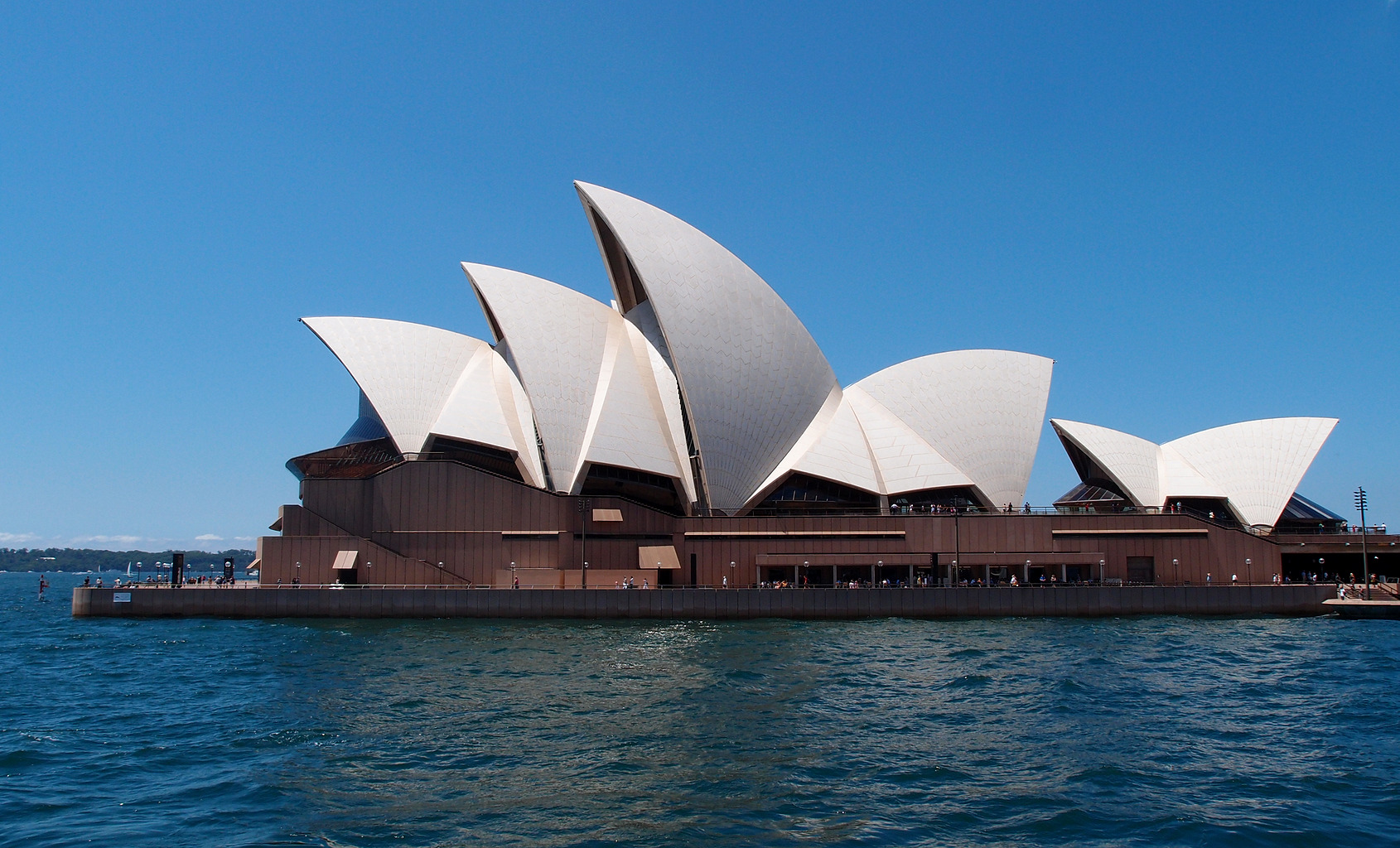 Sydney Opera House from Circular Quay